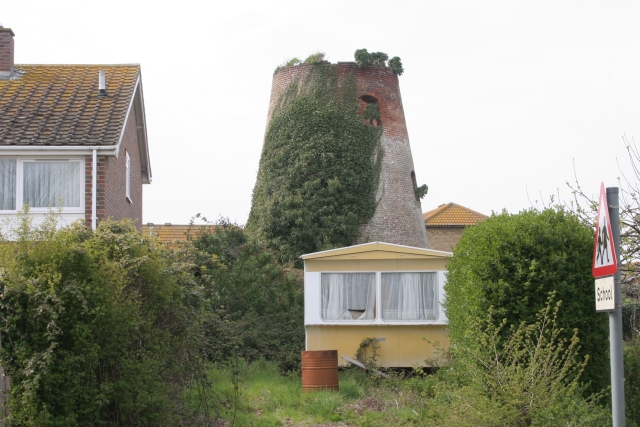 Photograph of East Wittering windmill